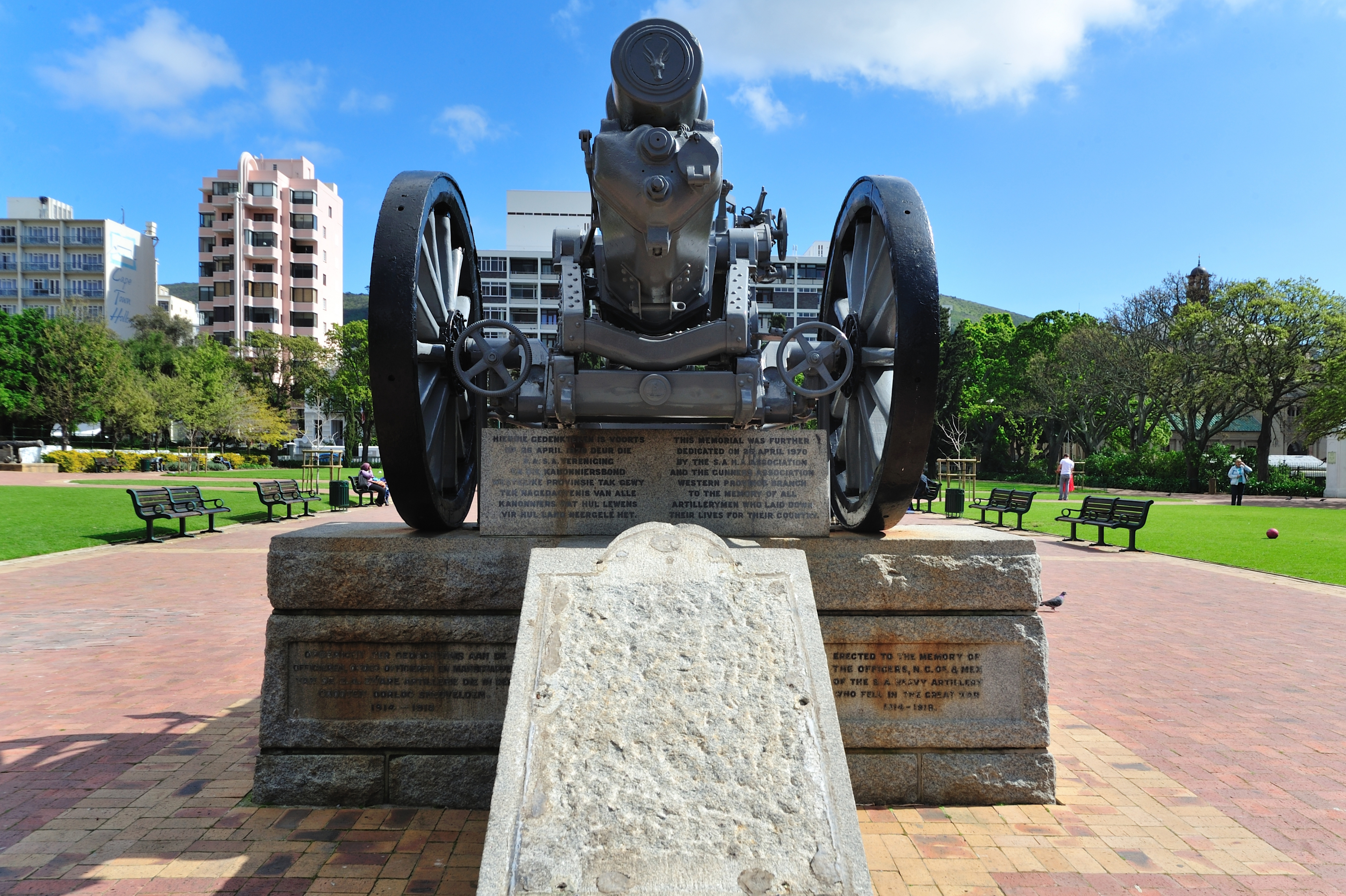 Artillery Monument in the Company Gardens, Cape Town This media shows a South African Protected Site with SAHRA file reference 9/2/018/0149.